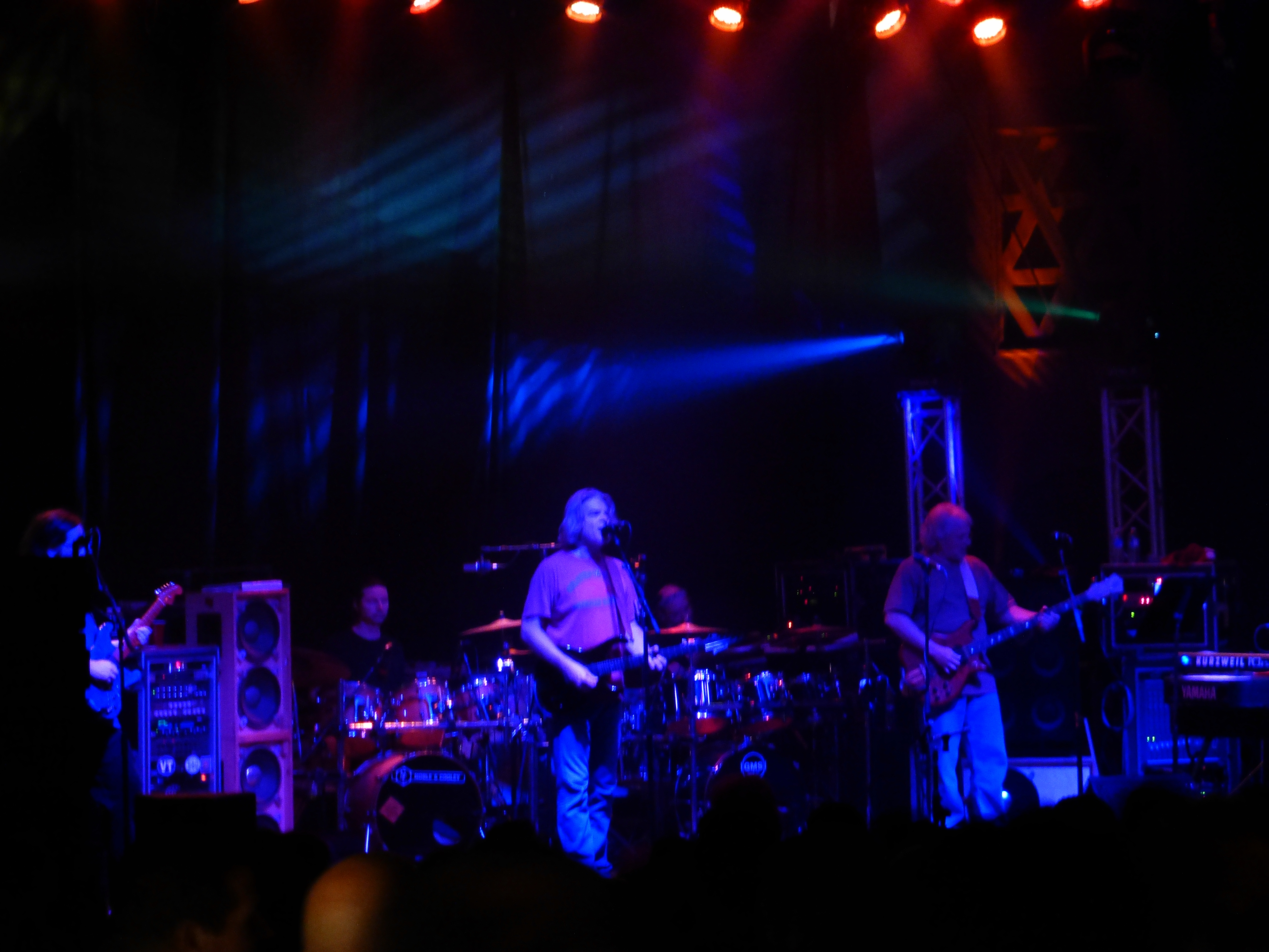 The Westcott Theater Syracuse, NY, 13210 December 1, 2014